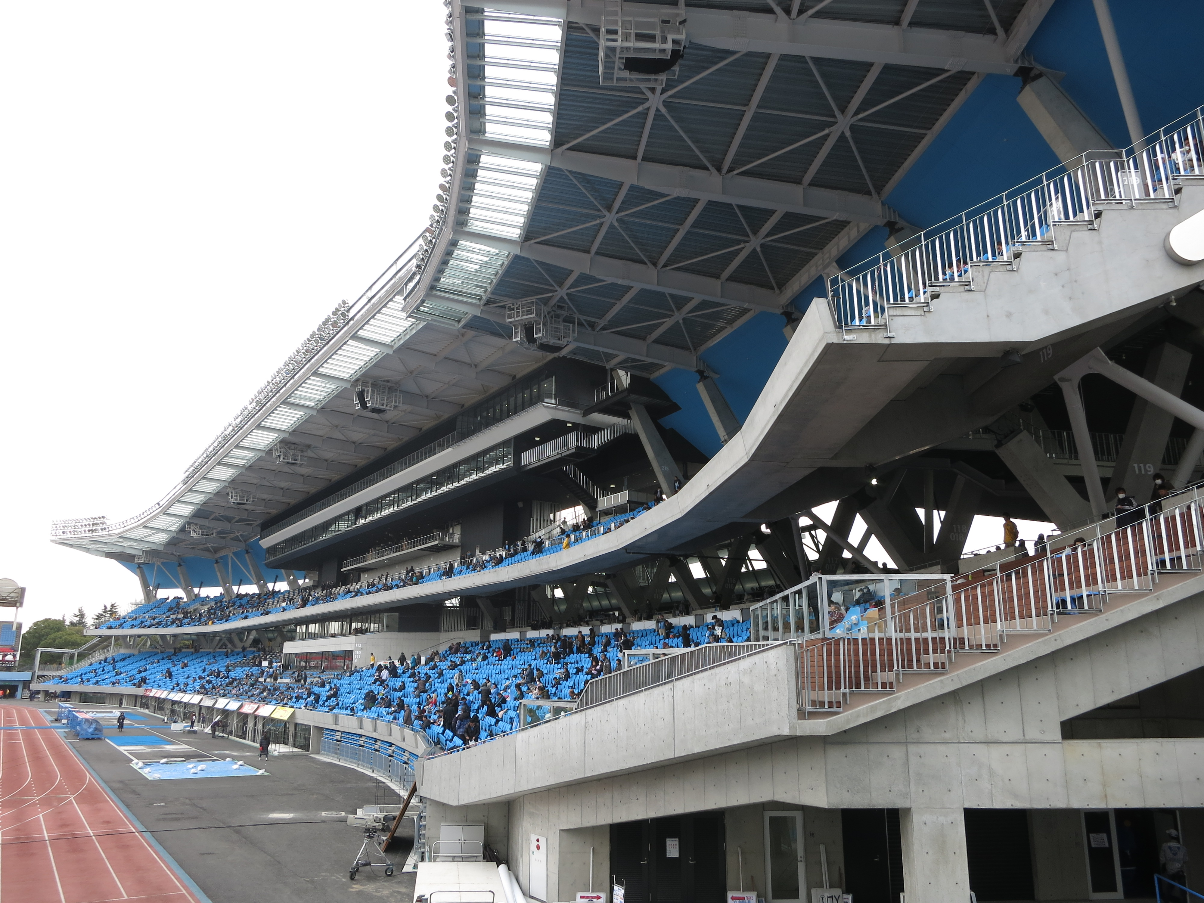 Todoroki Stadium